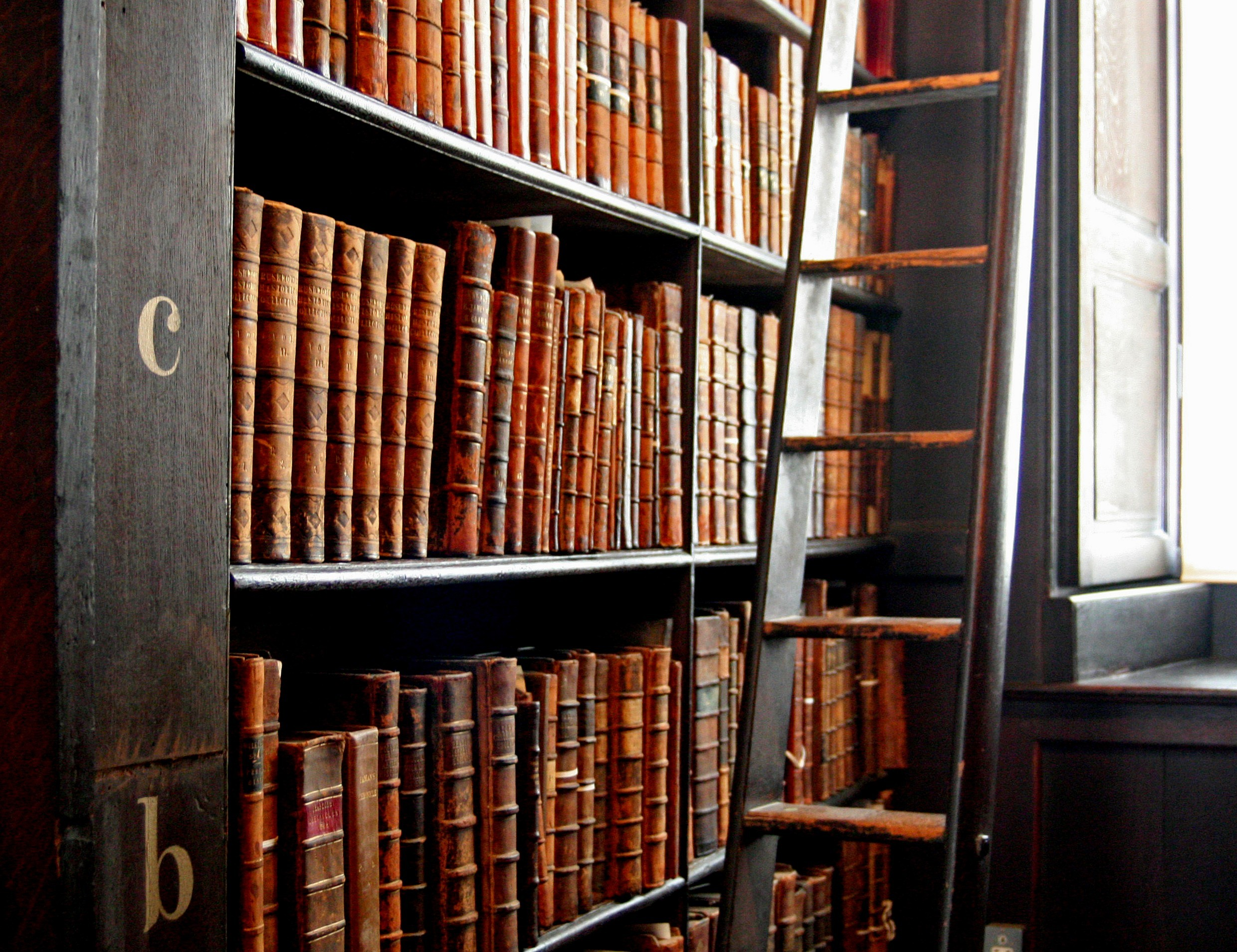 “Words in leather and wood”. Bookshelves in the “Long Room” at the old Trinity College Library in Dublin.